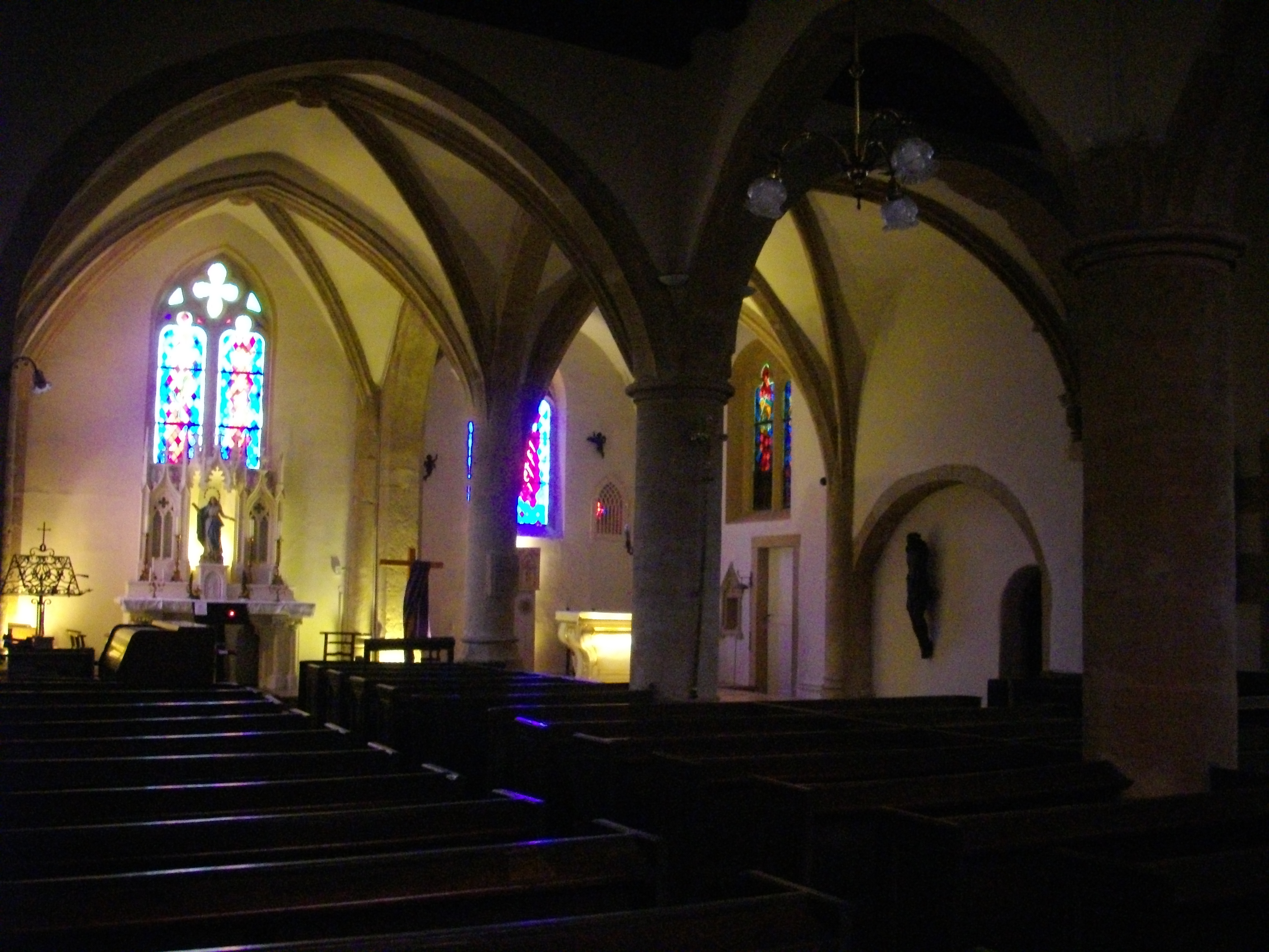 Saint Gorgonius church of Lessy (Moselle, France), interior .